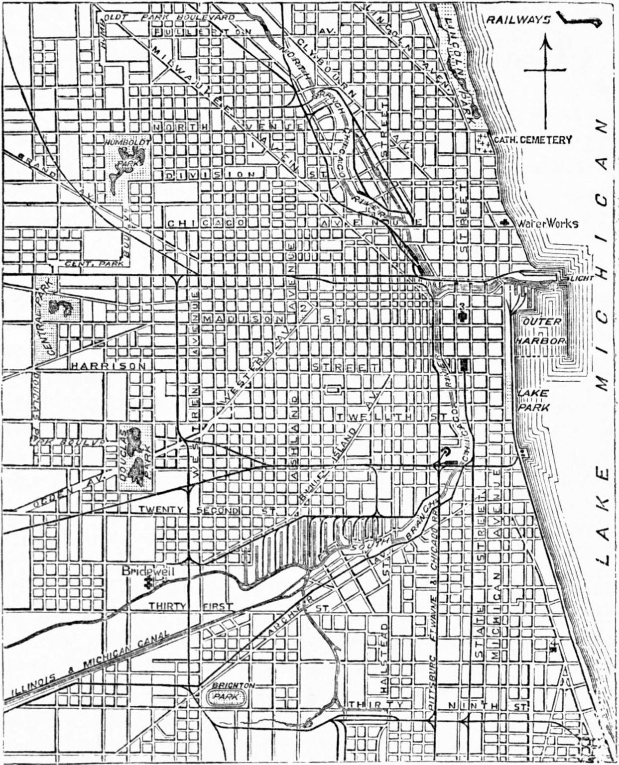 Street map of Chicago.